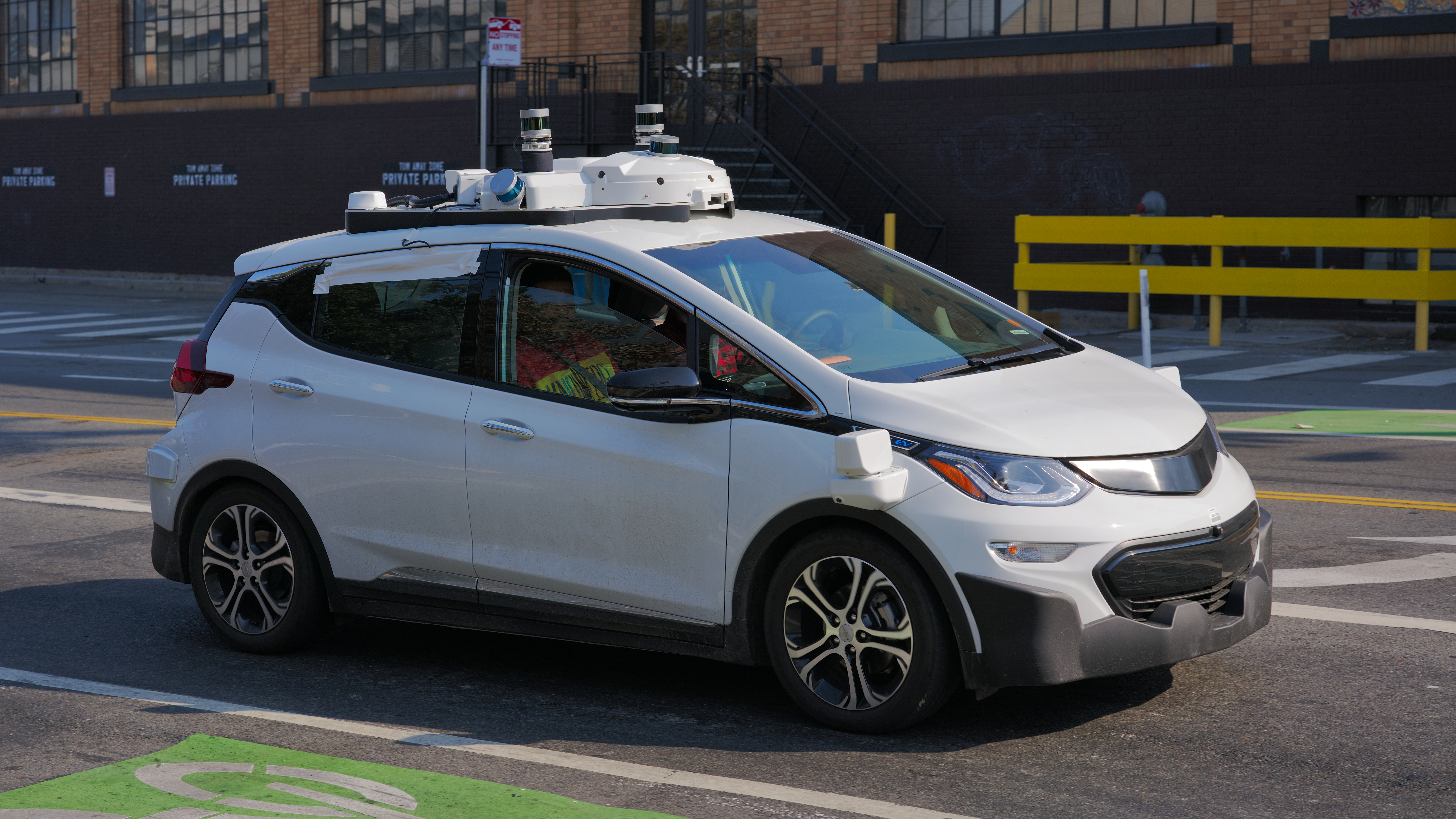 A Cruise Automation Chevrolet Bolt, third generation, seen in San Francisco.